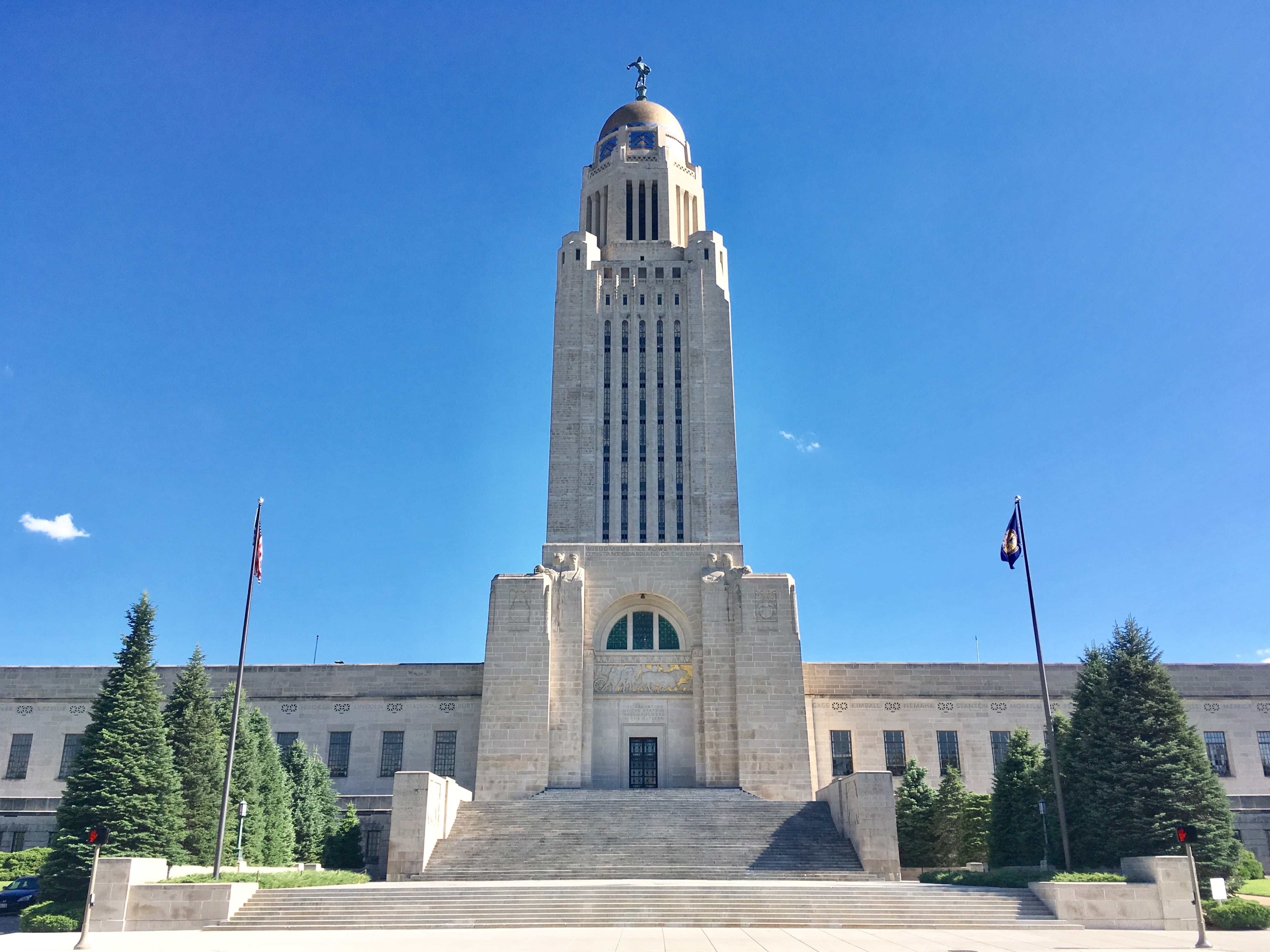 Nebraska State Capitol, front elevation, north